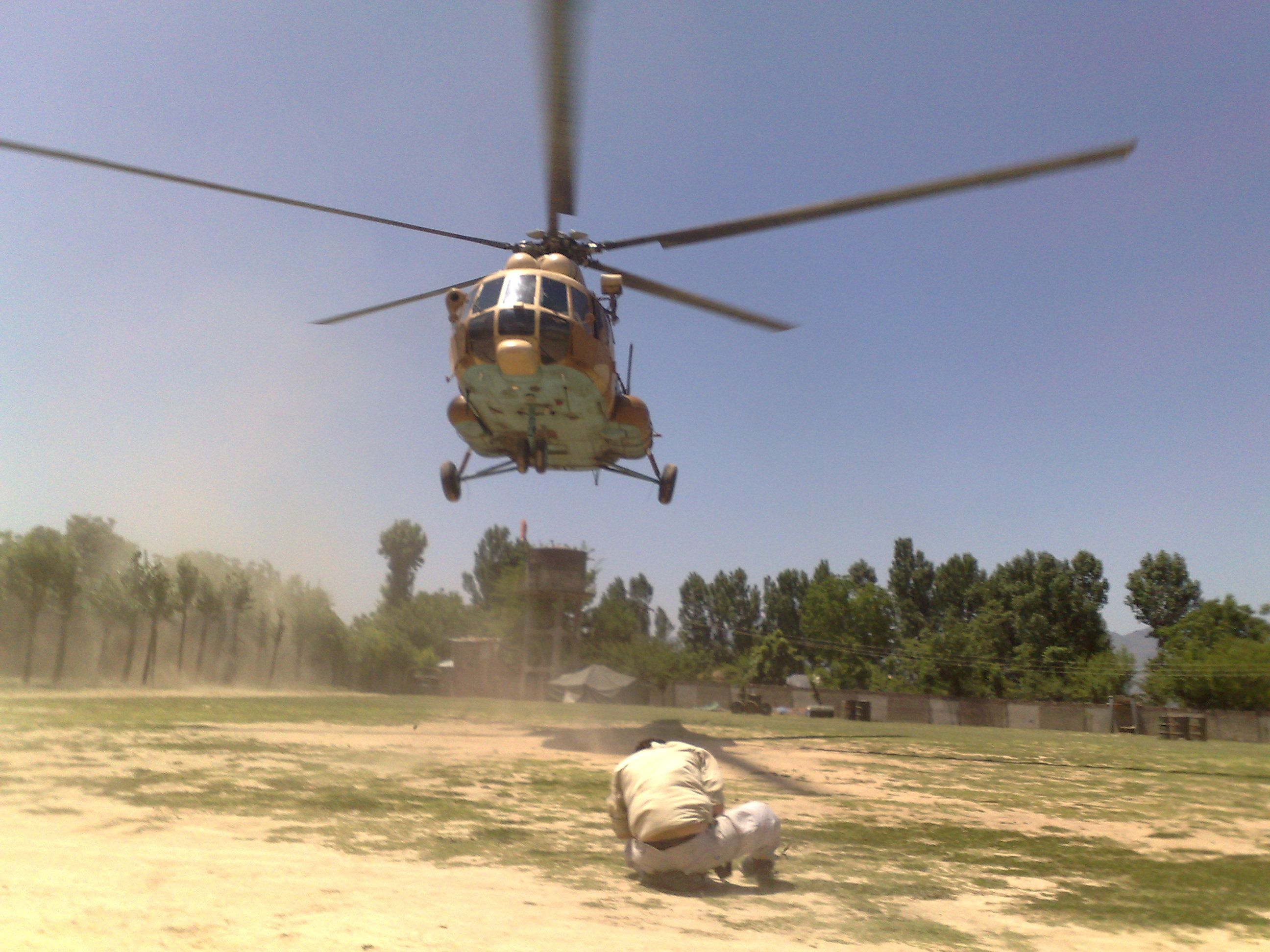 Pakistani forces captured Baine Baba Ziarat, the highest point in Swat valley, 10 days ago.